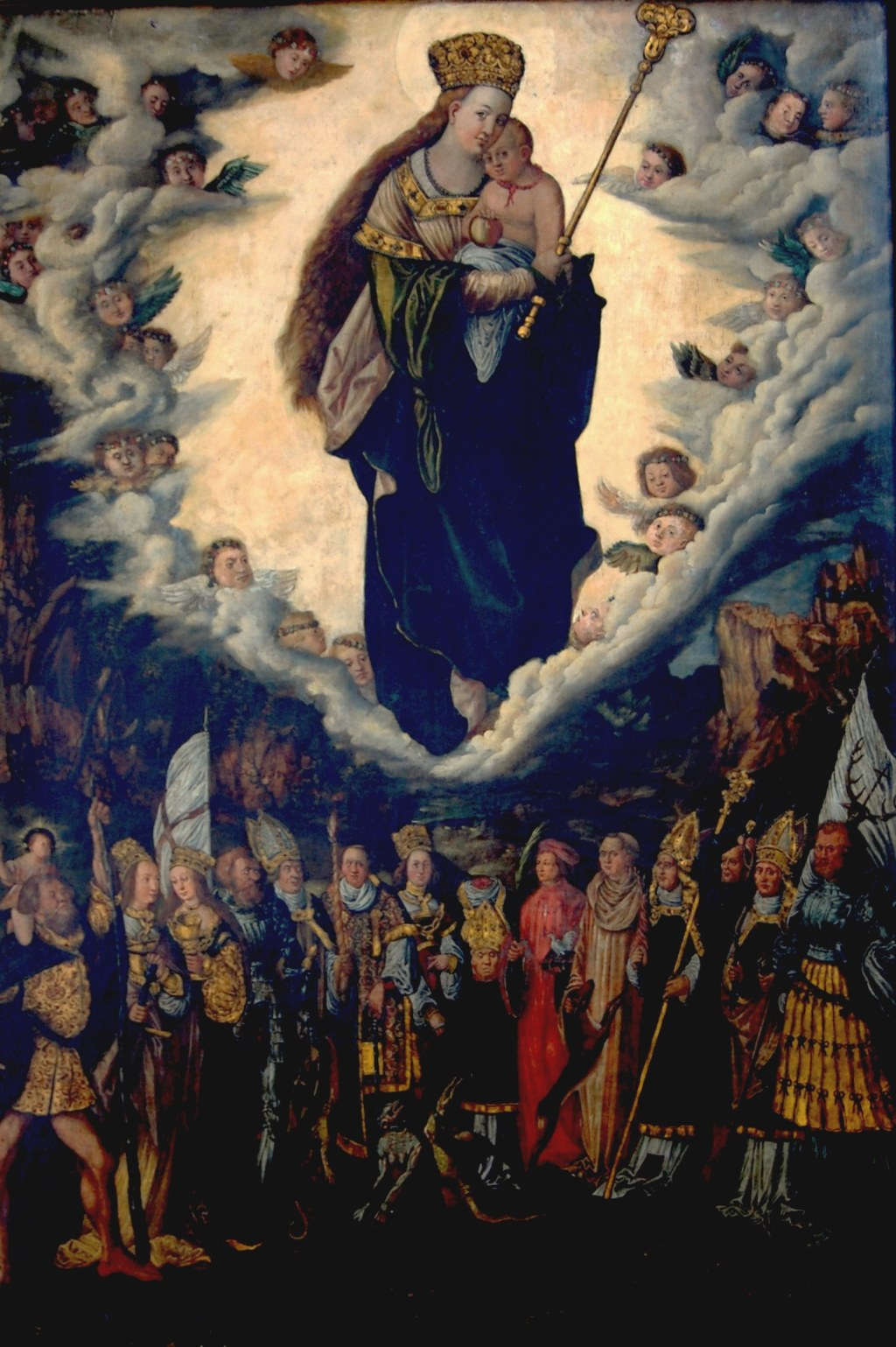 Hans Duerer painting - Madonna with 14 helfers.